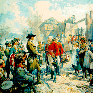 The Battle of Vincennes in the American Revolutionary War was fought on February 23 – February 25, 1779. A small force of American soldiers led by George Rogers Clark encircled Fort Sackville at Vincennes, Indiana, and continued marching around it until the Indians and British garrisoned there were convinced that there were hundreds of soldiers.